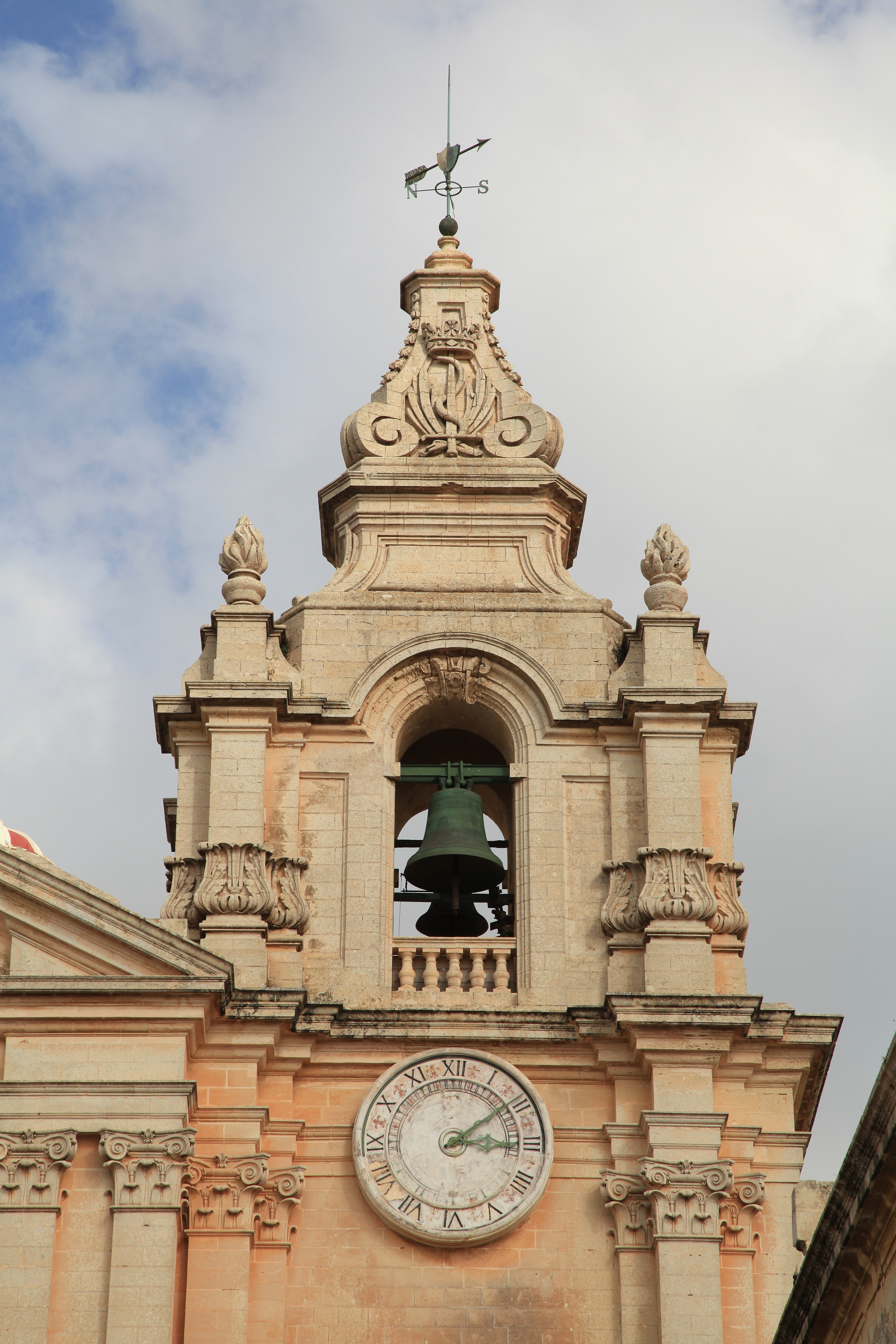 St. Paul's Cathedral, Pjazza San Pawl in Mdina, Malta